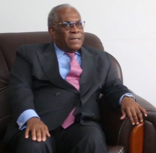 Fidelino Loy de Jesus Figueiredo, ambassador of Angola to Timor-Leste.